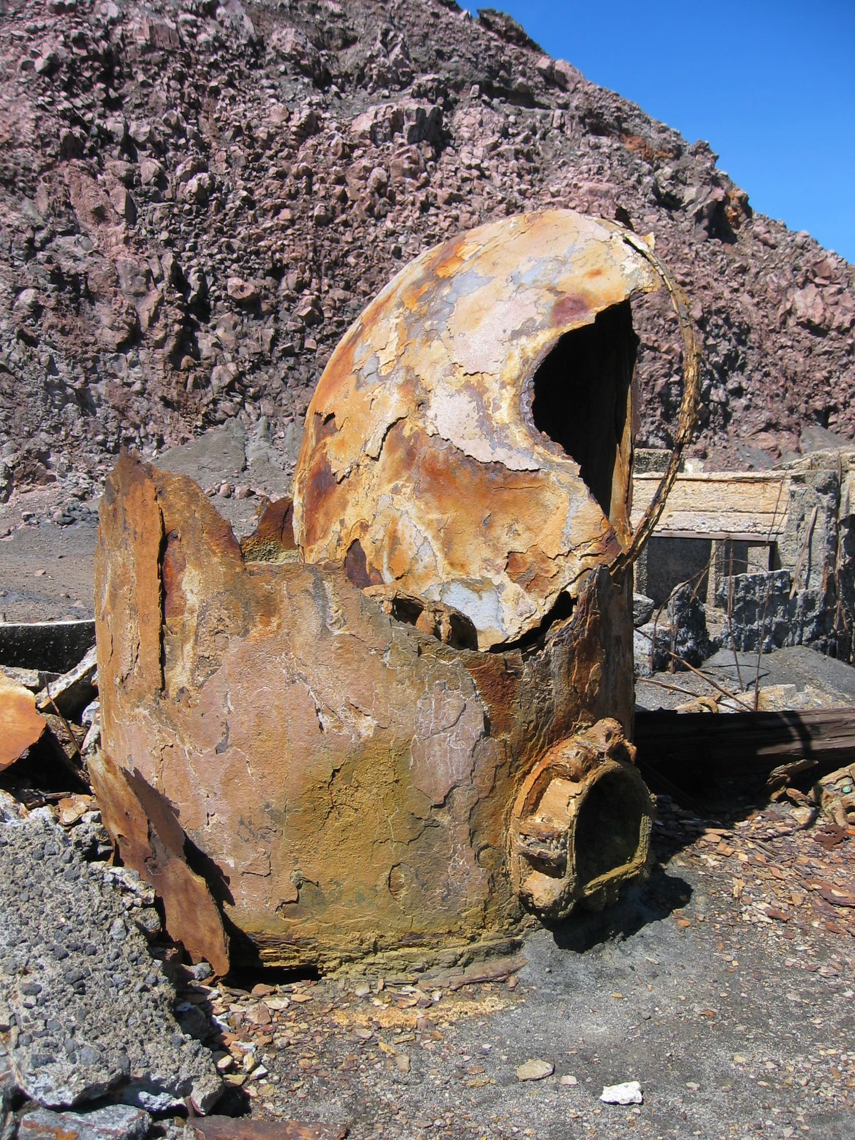 Corroding iron tank at the White Island sulphur mine, abandoned after a lahar killed all the workers in 1914.